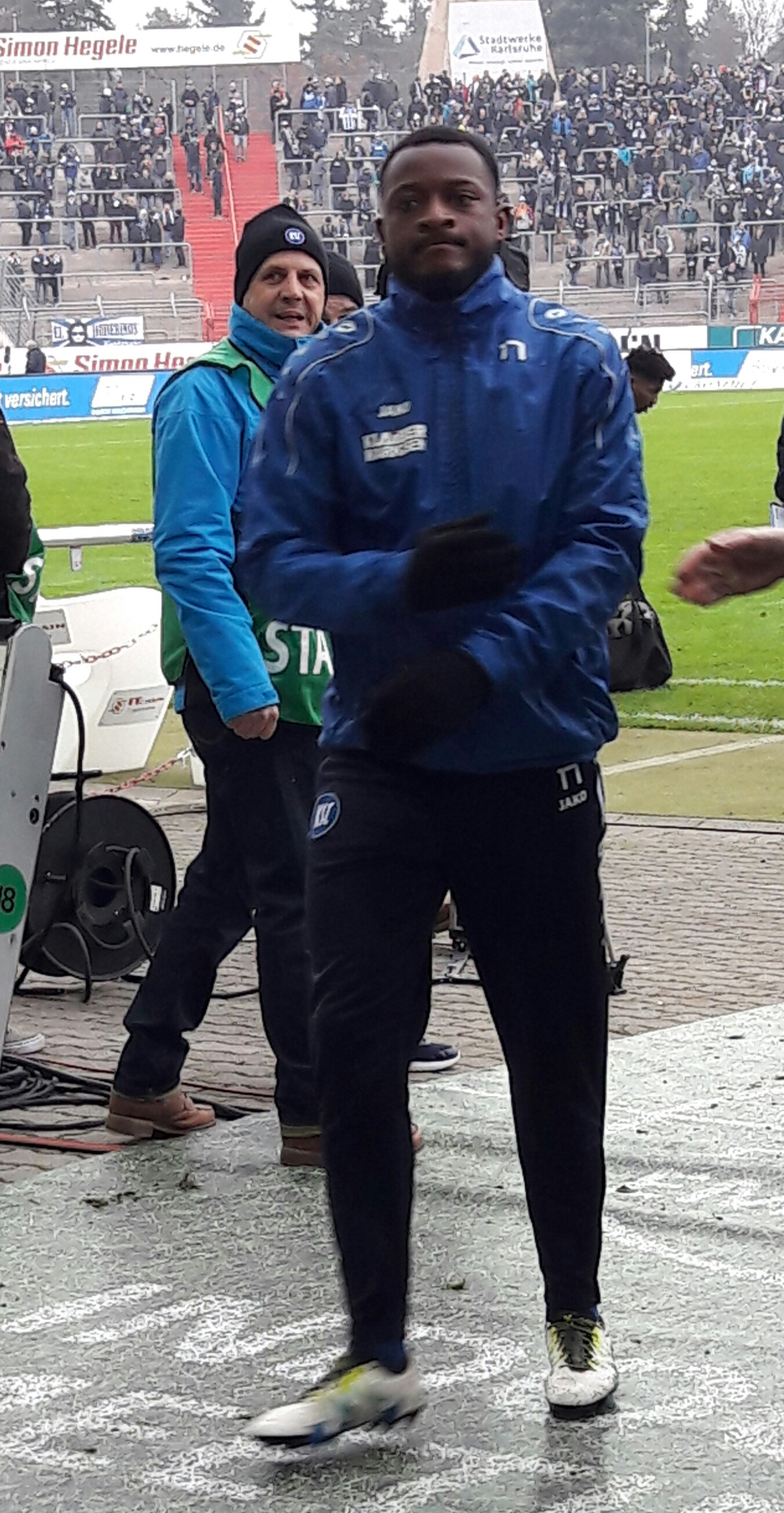 Footballplayer David Kinsombi before the match KSC - Eintracht Braunschweig at December, the 17th 2016